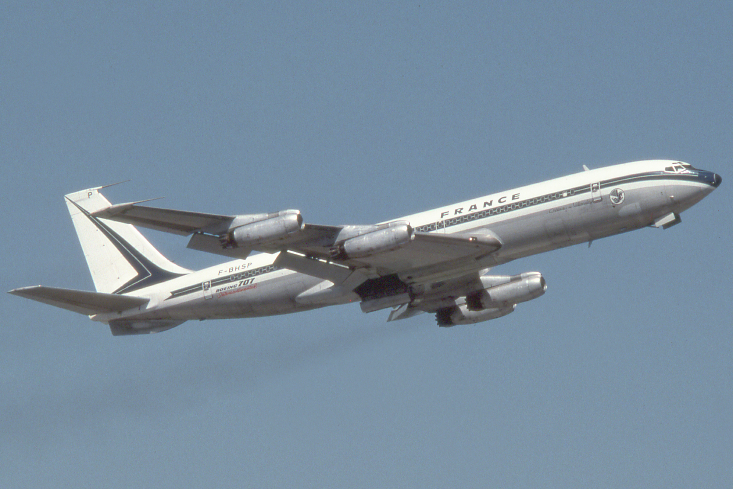 Air France Boeing 707 taking off at London Heathrow Airport